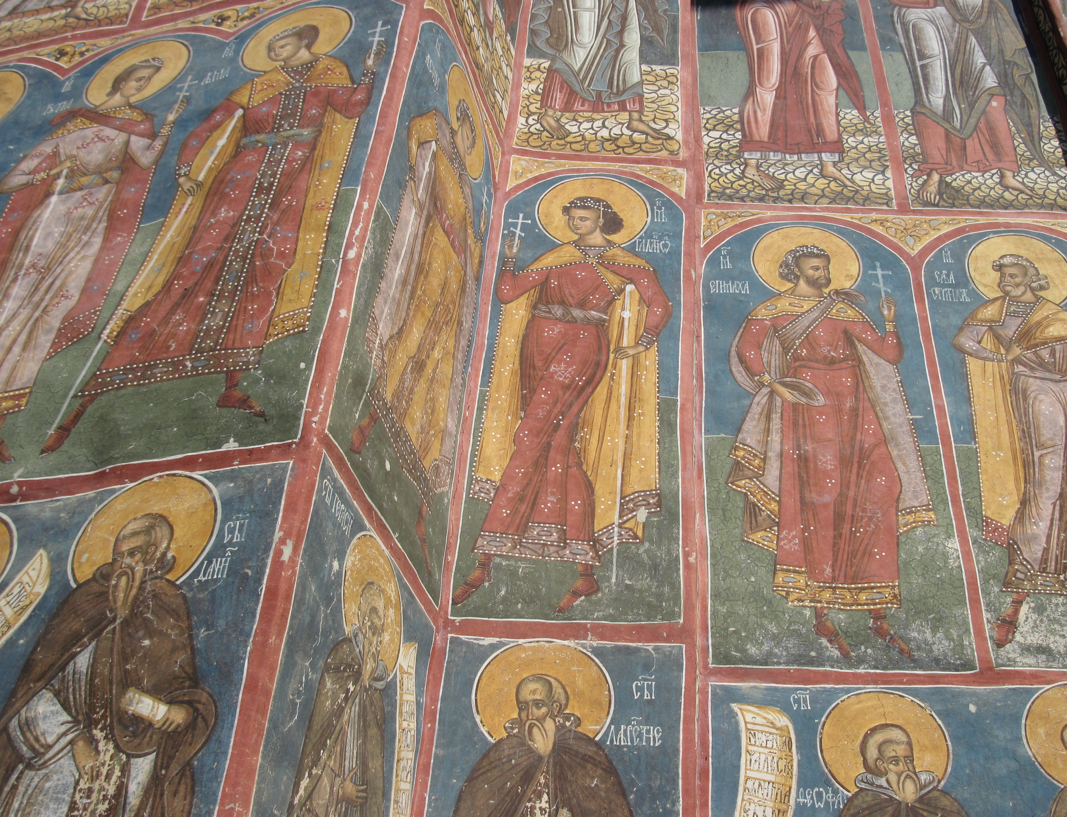 Moldoviţa Monastery, Romania. The church is one of the Painted churches of northern Moldavia listed in UNESCO's list of World Heritage sites.